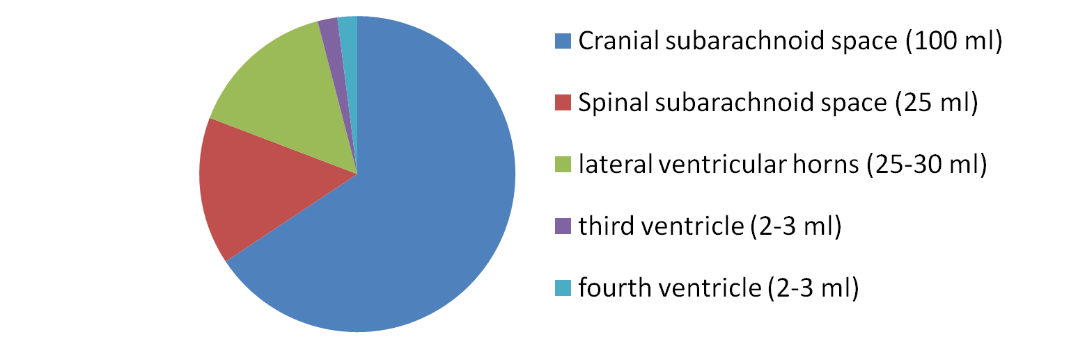 Volumetric distribution of cerebrospinal fluid